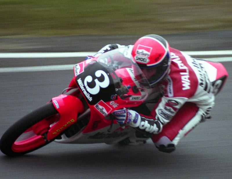 Ralf Waldmann, at Japanse Grand Prix 1992